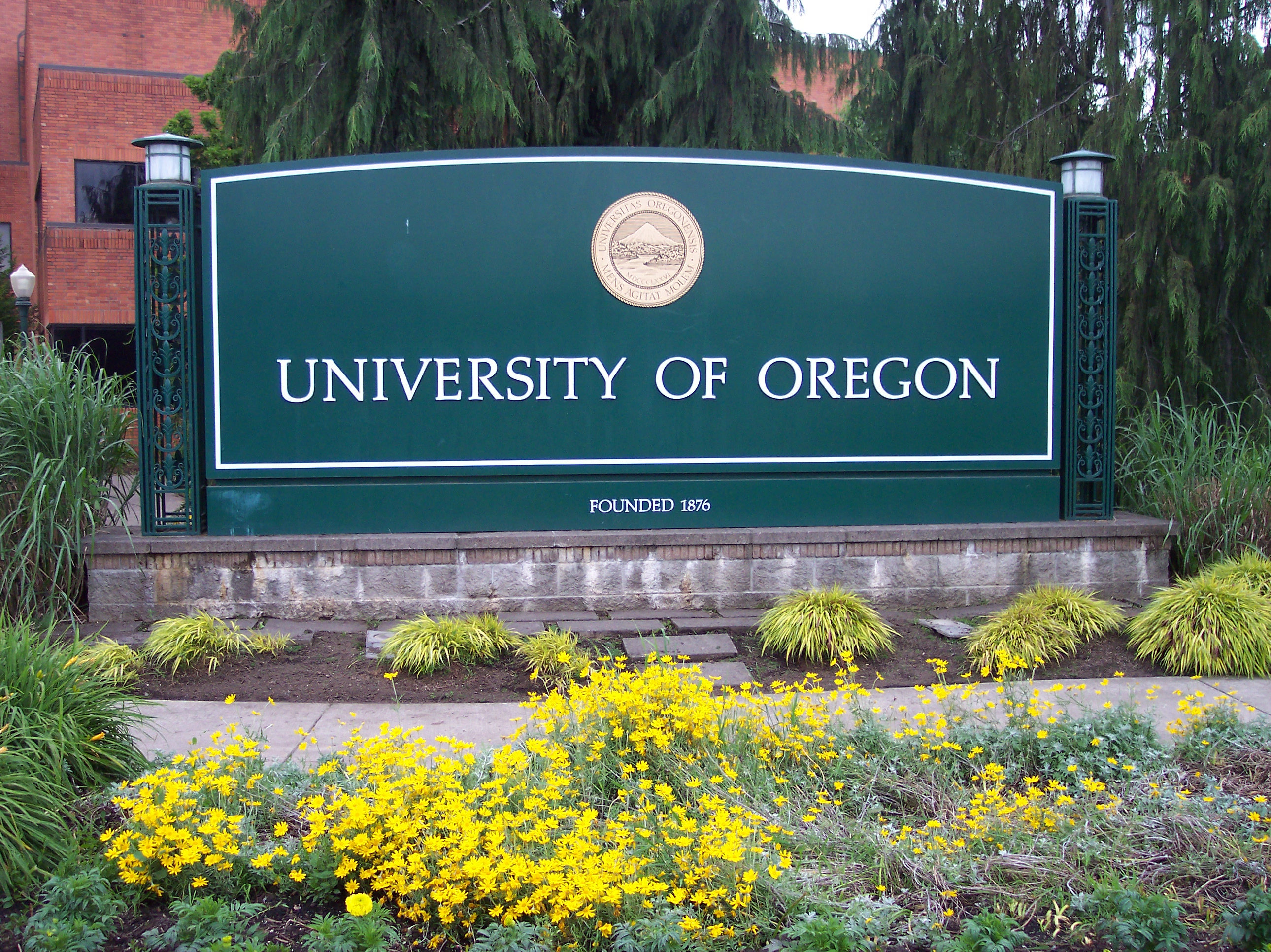 University of Oregon Agate Street sign, taken by myself. Adam850 01:42, 6 June 2006 (UTC)